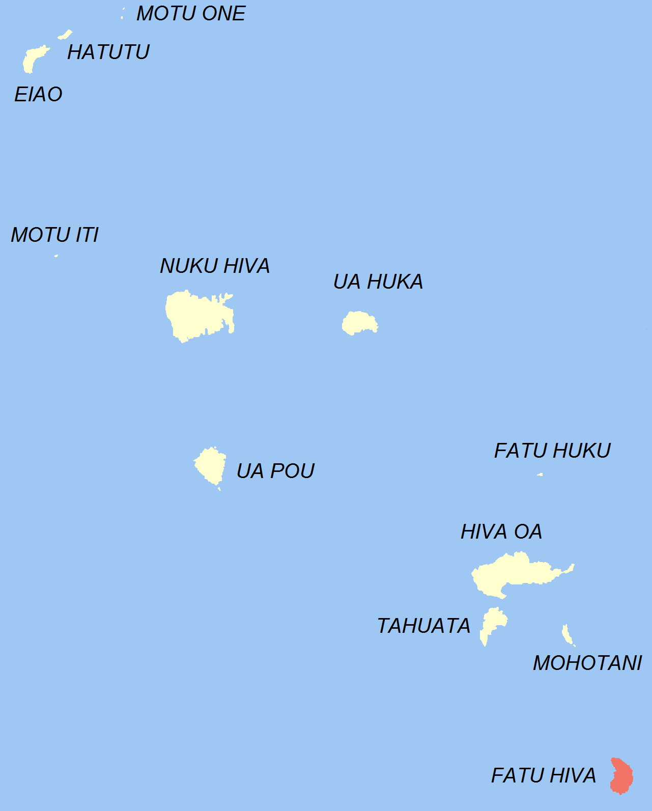 Map of the commune of Fatu-Hiva, made by myself.